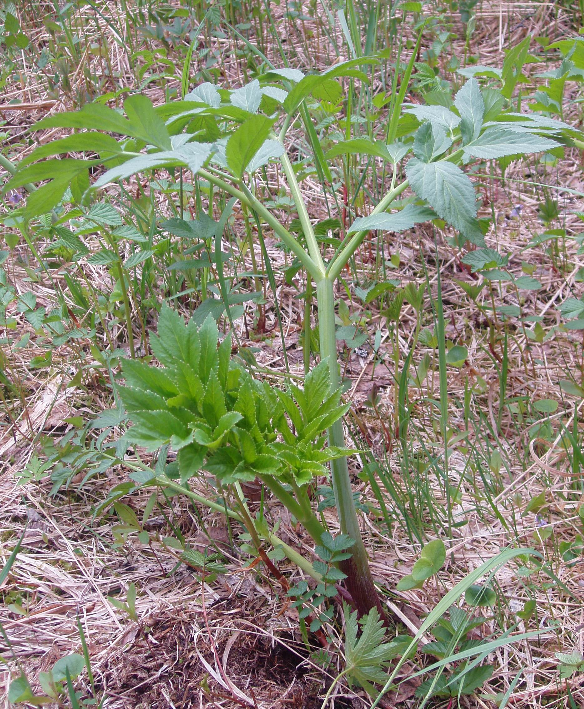 Young stadium of archangelica